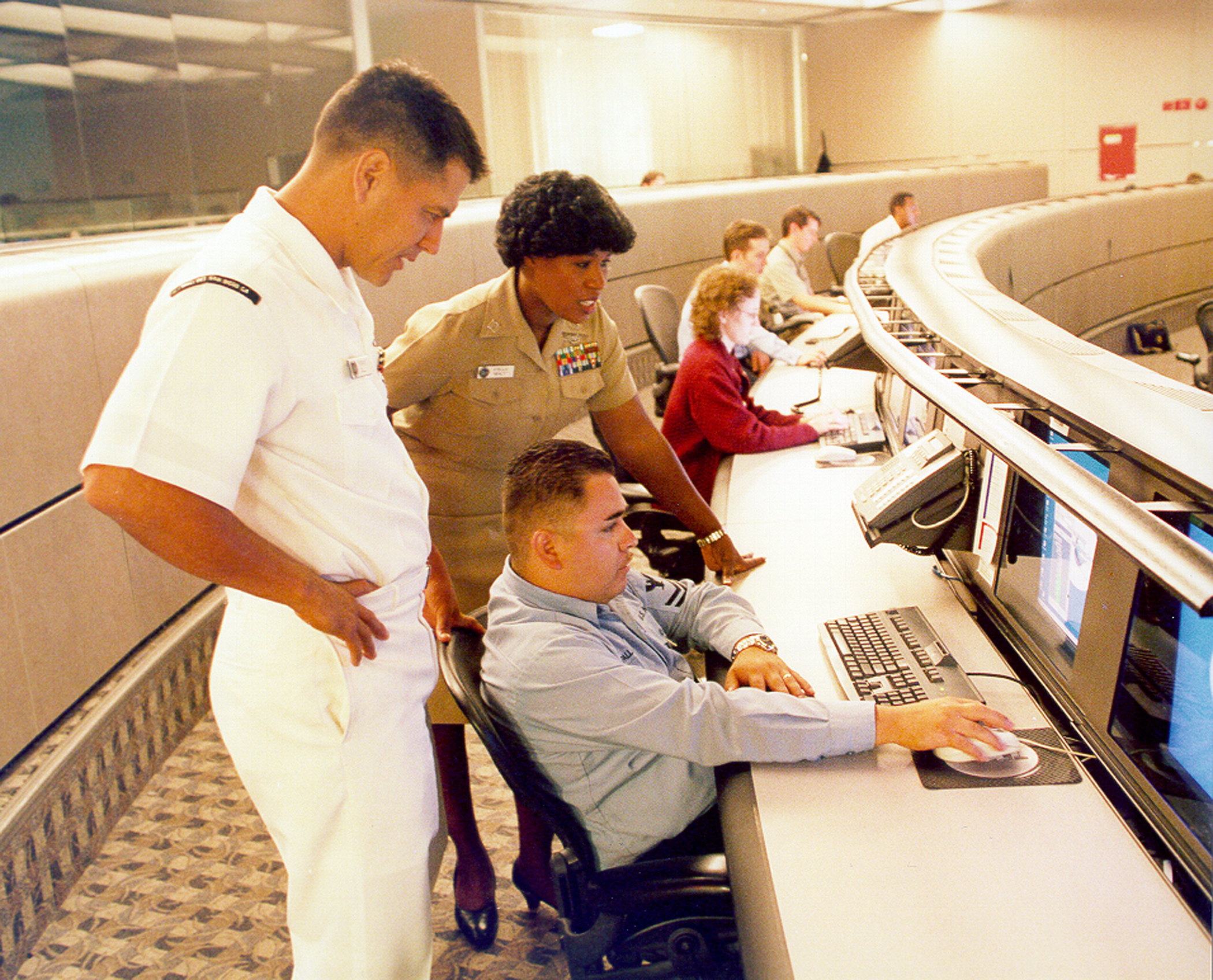 San Diego, Calif. (June 14, 2004) – Information Systems Technician 1st Class Thomas Dull, left, Lt. Stella Nealy, center, and Information Systems Technician 2nd Class Eduardo Pallanes study a computer monitor at Naval Network and Space Operations Command. Petty Officer Dull recently received the Navy Marine Corps Internet (NMCI) Innovation Award by the Navy’s NMCI Program Office. The award, presented during the NMCI Industry Symposium, recognized individuals who have created solutions that have enhanced transition to the NMCI environment or leveraged NMCI capabilities to achieve enhanced efficiencies. Dull serves as Leading Petty Officer for the training department with Naval Network and Space Operations Command’s NMCI Detachment San Diego, Calif. U.S. Navy photo by Gary R. Wagner (RELEASED)